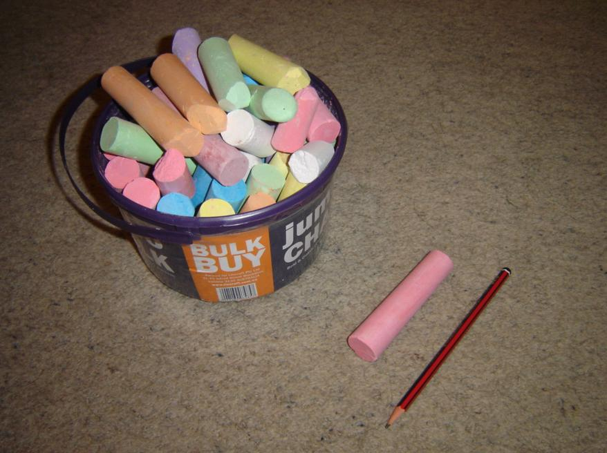 A bucket of chalk, with pencil for scale.